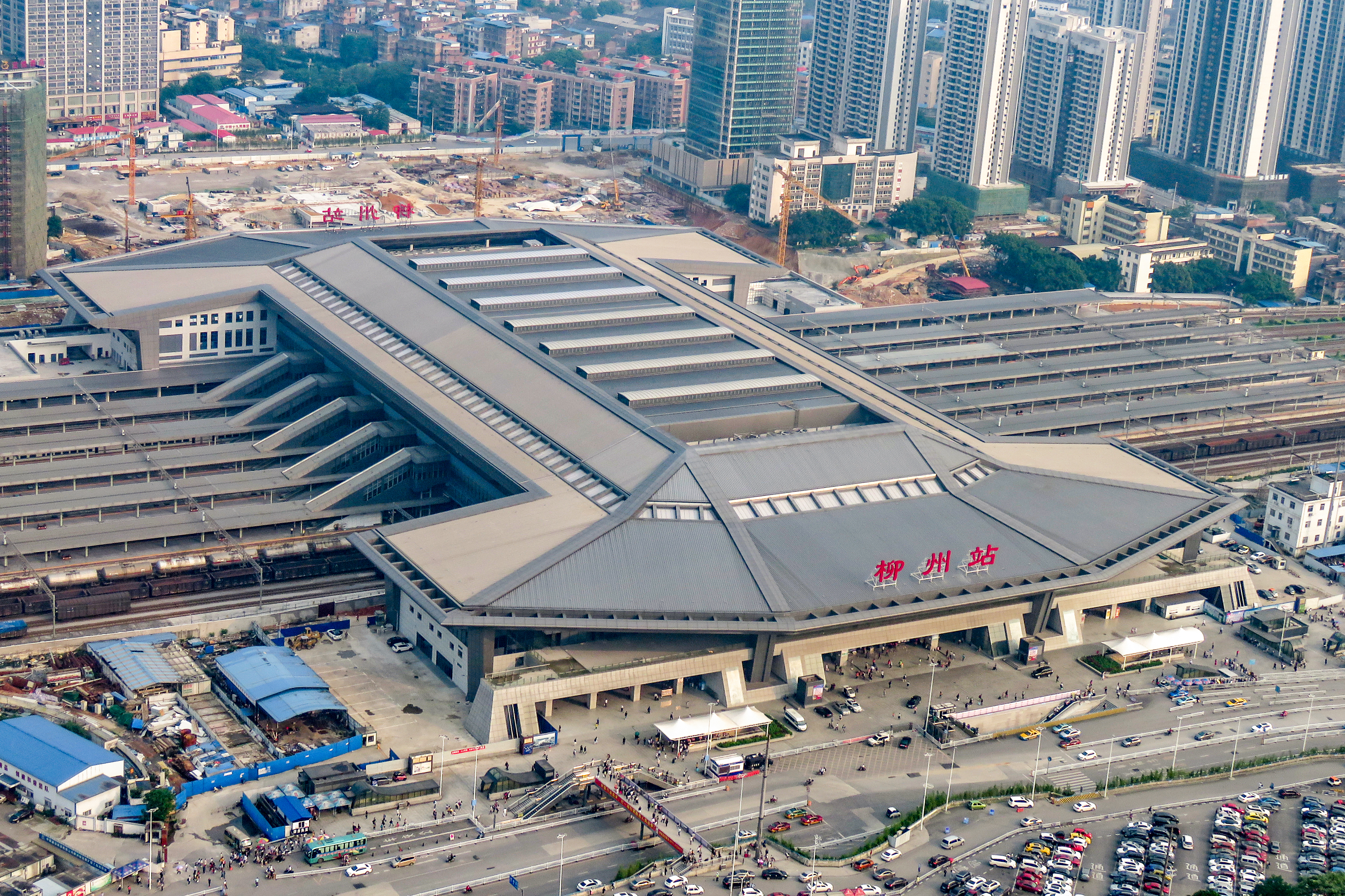 A full view is only available on the peak of Eshan (lit. Goose Hill).